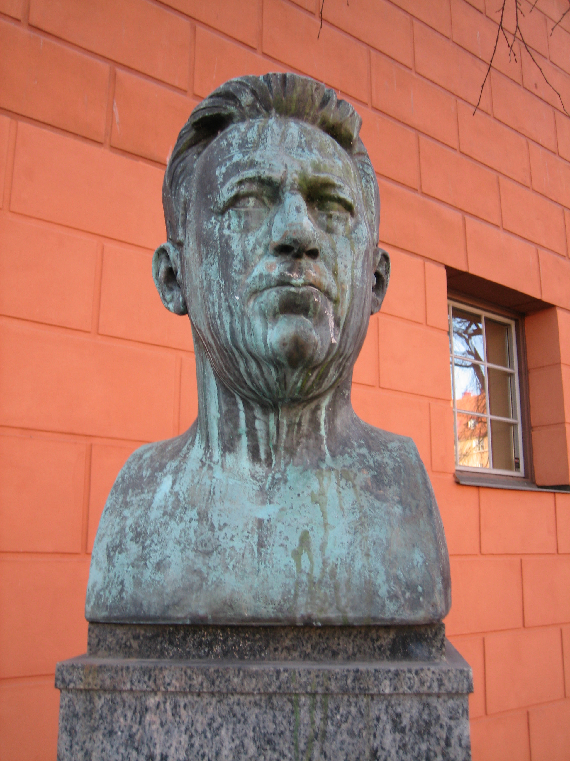 Bust of Fabian Månsson (1872-1938), swedish left wing politician. Made by Carl Eldh (1873-1954) 1940. Stockholm public library.